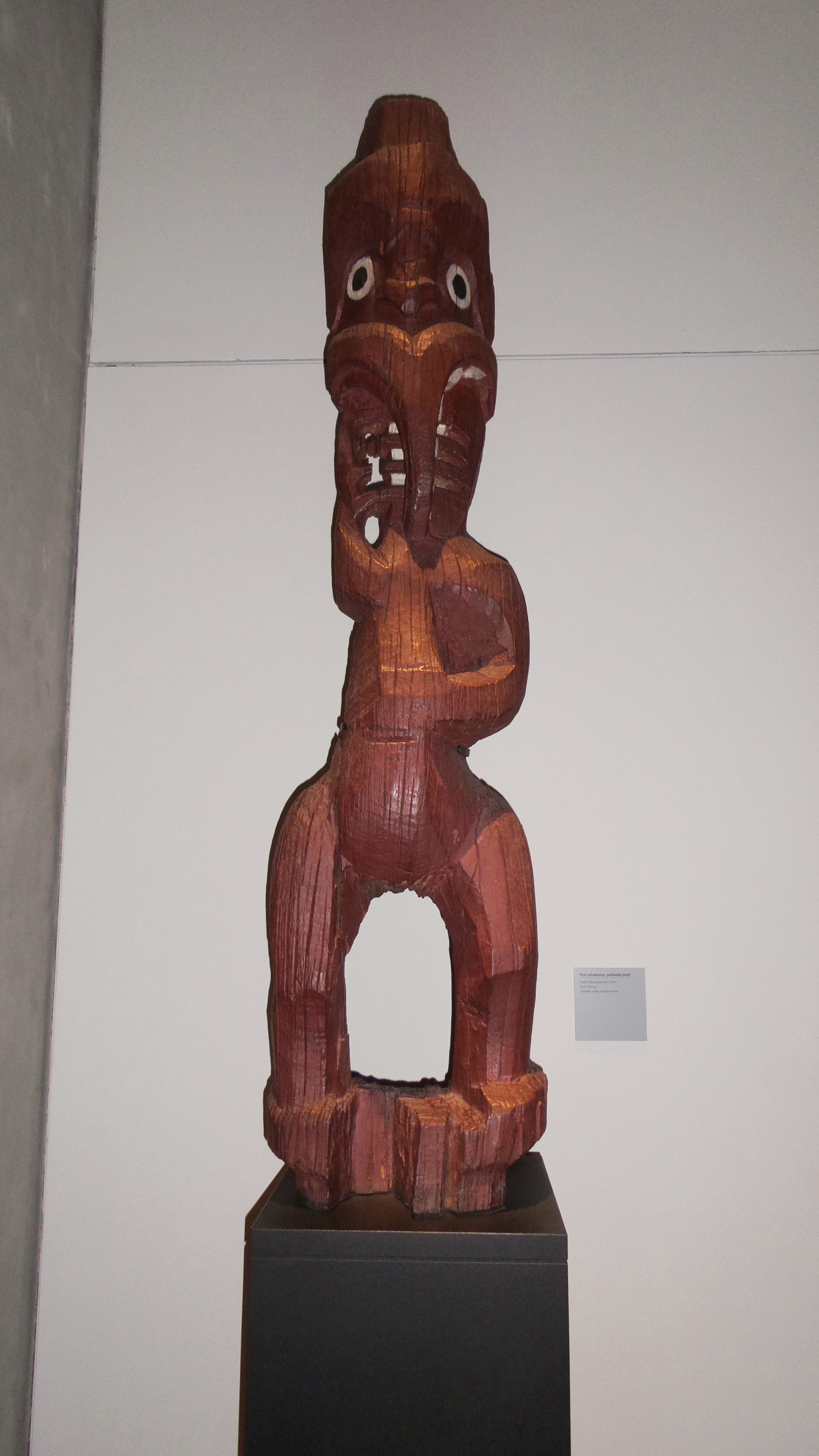 Maori pou whakarae (pallisade post), made from wood, in Te Papa, Museum of New Zealand.